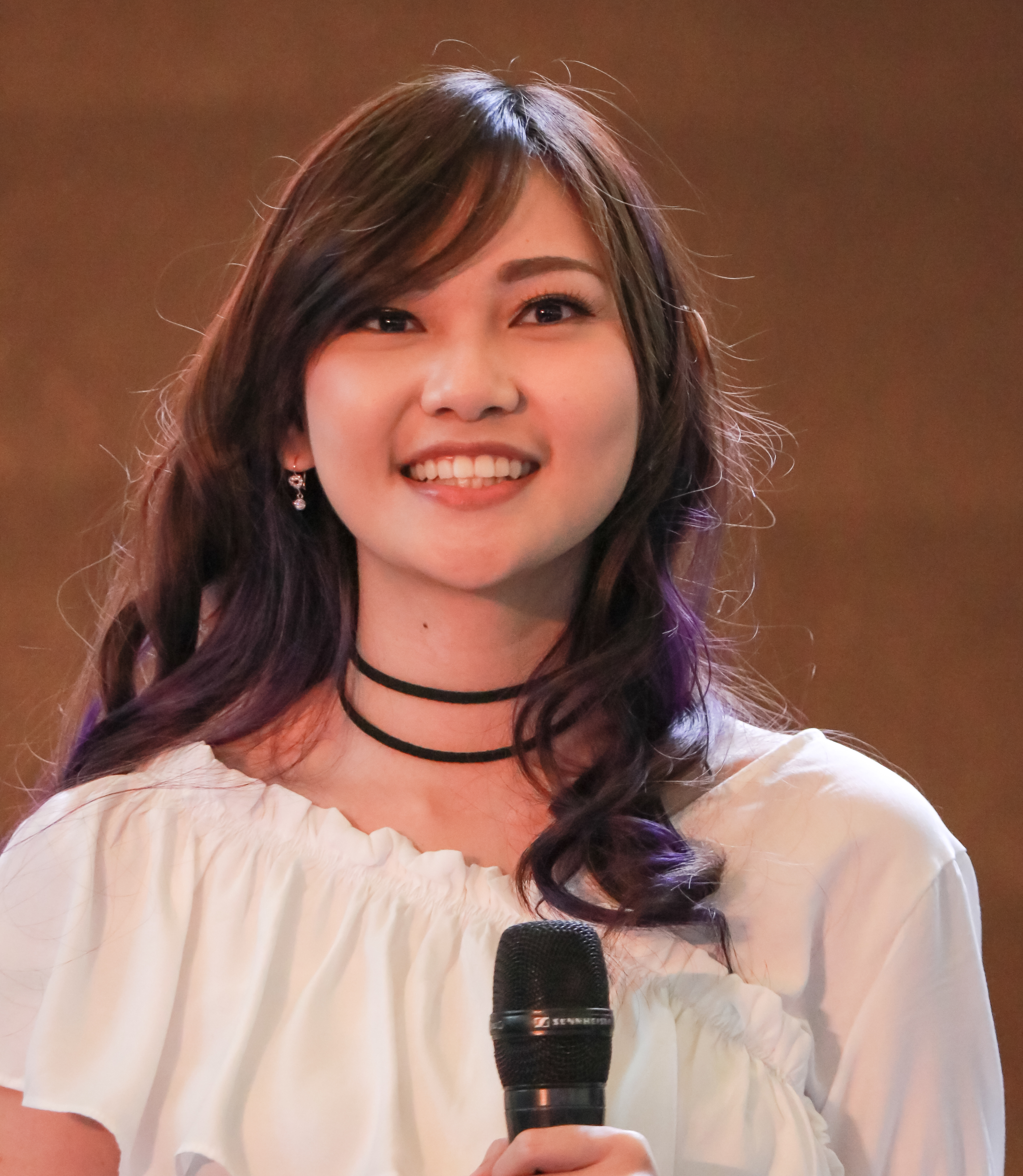 Andela Yuwono on 20 October 2019